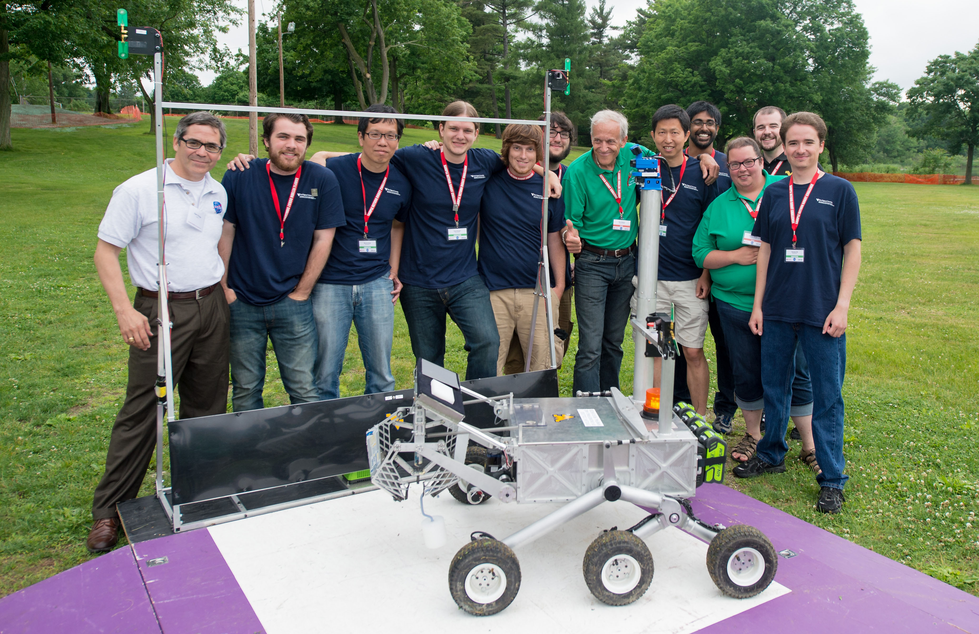 Members of team Mountaineers pose with officials from the 2014 NASA Centennial Challenges Sample Return Robot Challenge on Saturday, June 14, 2014 at Worcester Polytechnic Institute (WPI) in Worcester, Mass. Team Mountaineer was the only team to complete the level one challenge this year. Team Mountaineer members, from left (in blue shirts) are: Ryan Watson, Marvin Cheng, Scott Harper, Jarred Strader, Lucas Behrens, Yu Gu, Tanmay Mandal, Alexander Hypes, and Nick Ohi Challenge judges and competition staff (in white and green polo shirts) from left are: Sam Ortega, NASA Centennial Challenge program manager; Ken Stafford, challenge technical advisor, WPI; Colleen Shaver, challenge event manager, WPI. During the competition, teams were required to demonstrate autonomous robots that can locate and collect samples from a wide and varied terrain, operating without human control. The objective of this NASA-WPI Centennial Challenge was to encourage innovations in autonomous navigation and robotics technologies. Innovations stemming from the challenge may improve NASA's capability to explore a variety of destinations in space, as well as enhance the nation's robotic technology for use in industries and applications on Earth. Photo Credit: (NASA/Joel Kowsky)